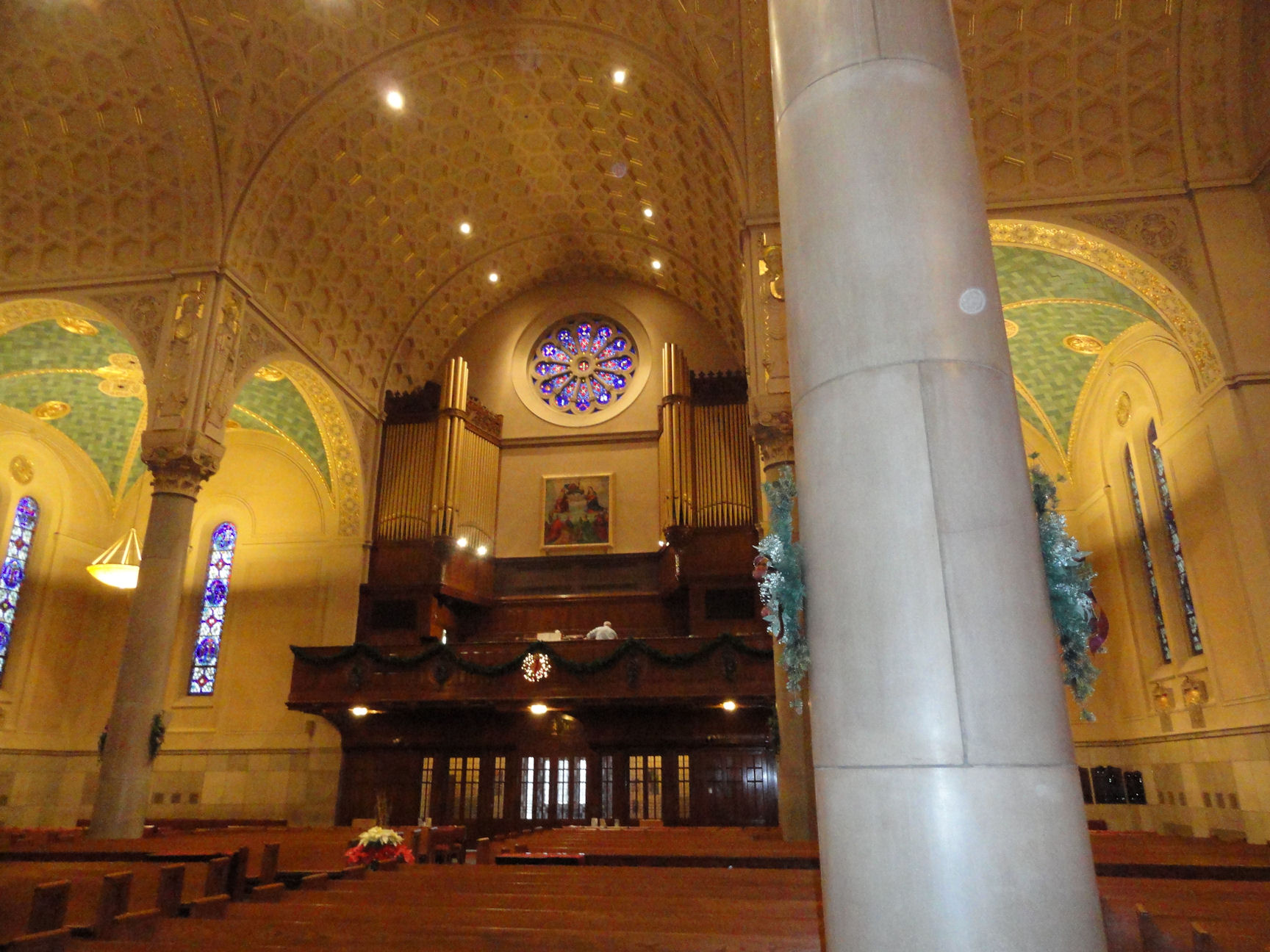 The gallary organ, designed by Henry Vincent Willis for the Wicks Organ Company.